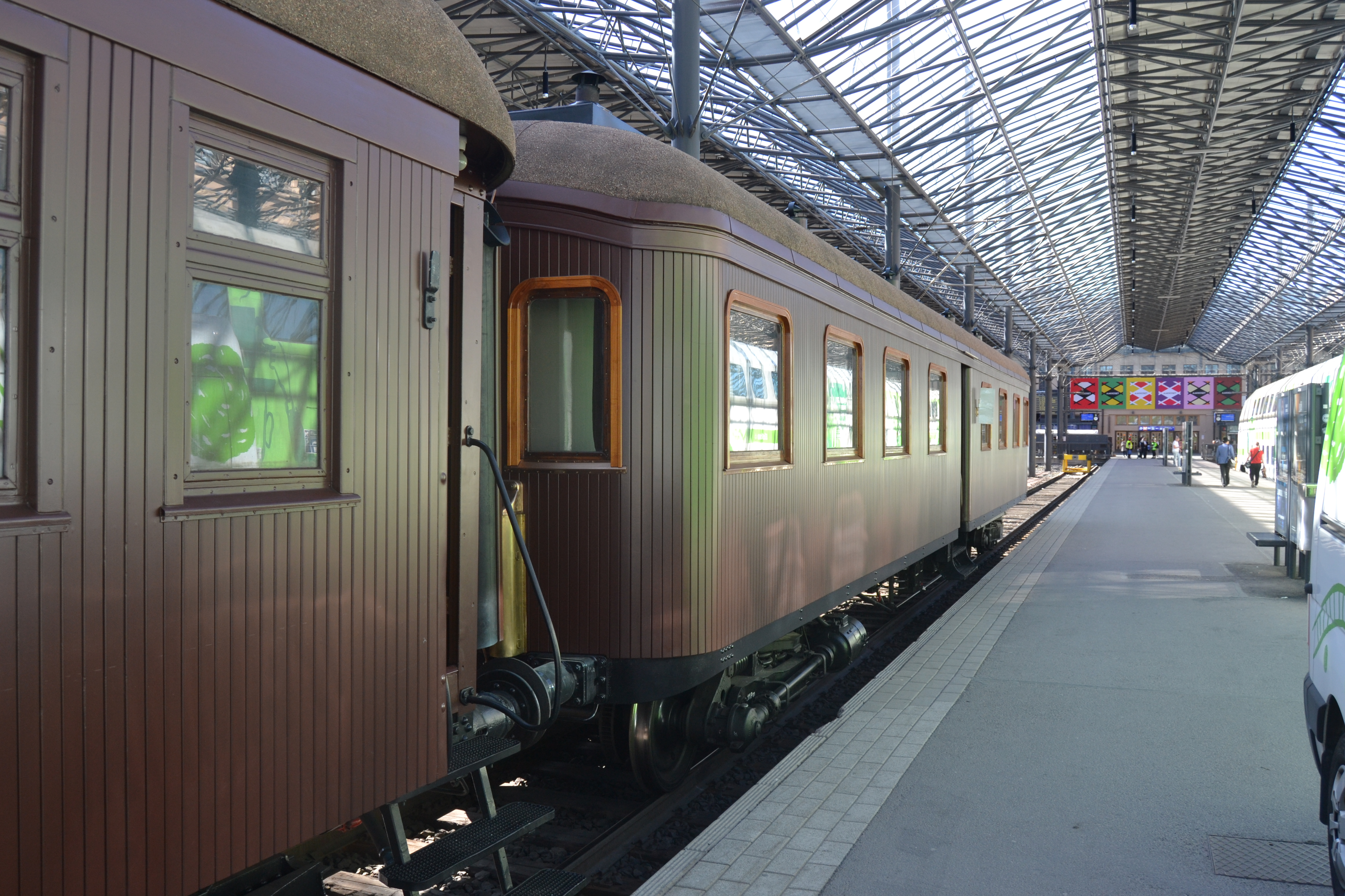 Salonkivaunu A100 Valtteri-junassa Helsingin päärautatieasemalla